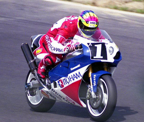 Scott Russell at 1993 Suzuka 8hours